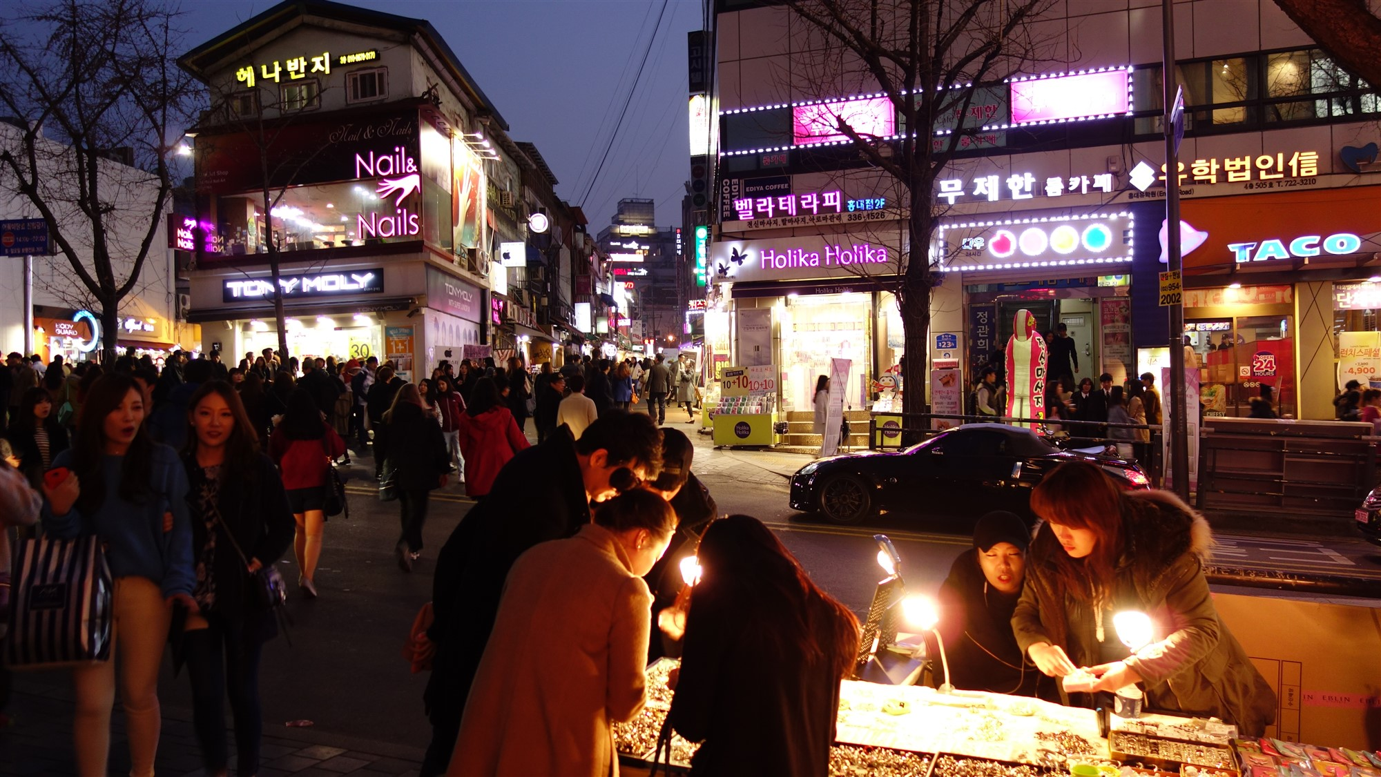 Hongdae Party District at Night, Seoul